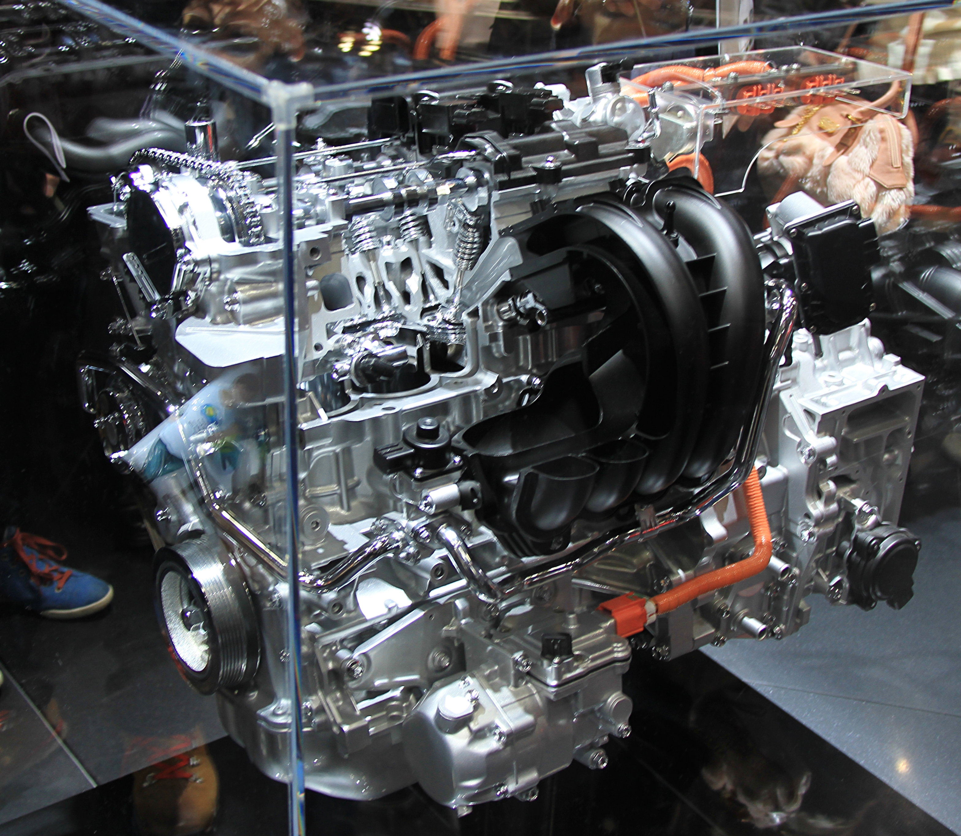 Mazda PE-VPH and hybrid system